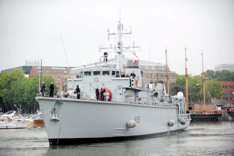 HMS Cattistock makes her way into Bristol Harbour. The mine countermeasures vessel was built by Vosper Thorneycroft and was commissioned into the Royal Navy in June 1982. She is part of the Second Mine Counter Measures Squadron based at Portsmouth and her primary role is to counter the threat of sea mines. The hull and most of the superstructure are constructed from GRP that is both non-magnetic and strong enough to withstand the explosive shocks likely to be encountered in a mine environment. This image is available for high resolution download at subject to the terms and conditions of the Open Government License at Search for image number 45153098.jpg Photographer: LA(PHOT) Joel Rouaw Image 45153098.jpg from